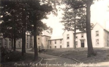 old postcard showing Mountain Ash and Penrhiwceiber General Hospital